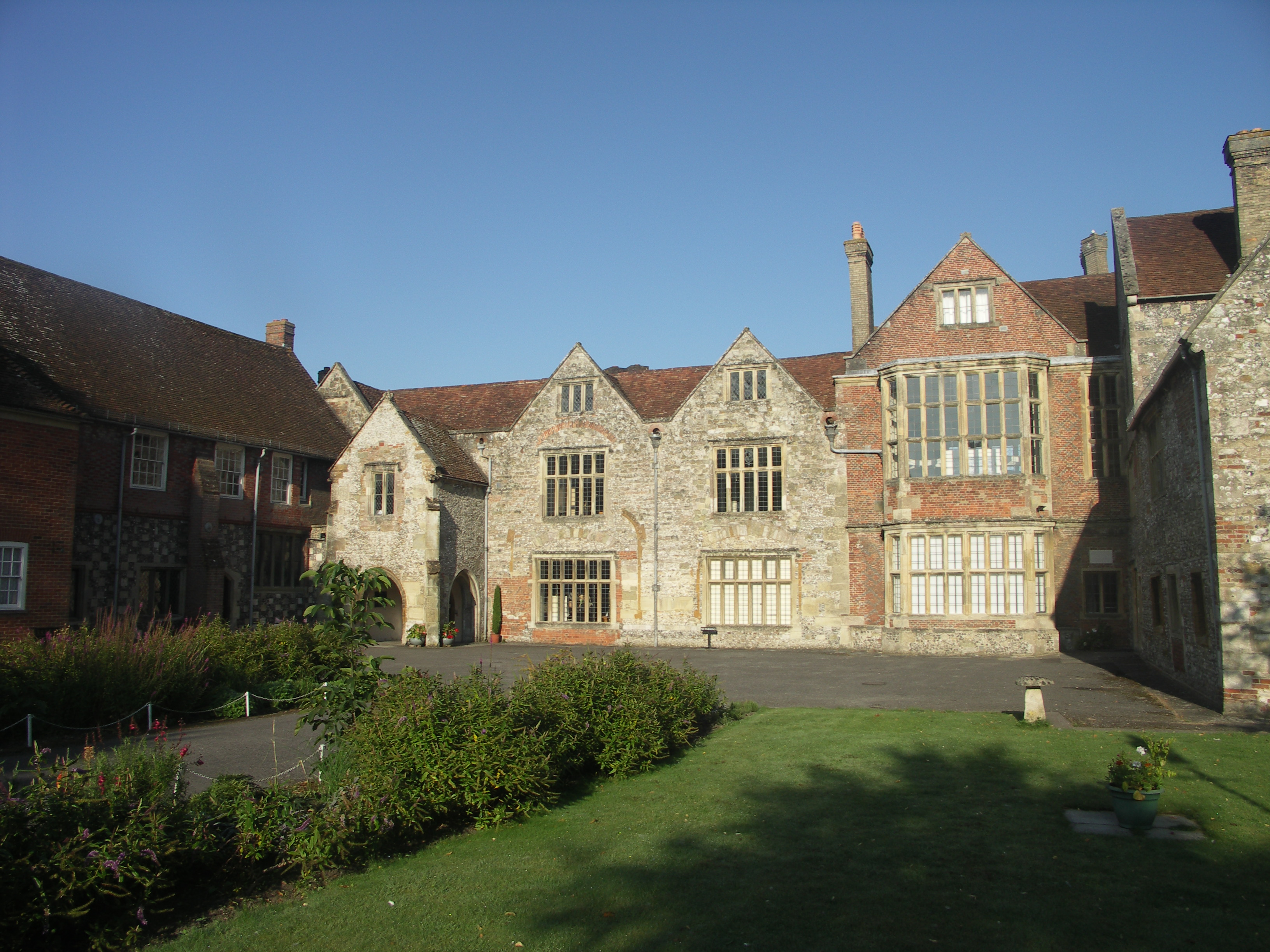 The King's House, situated in The Close, Salisbury - just opposite the Salisbury Cathedral west front & is home to displays about Stonehenge & the archaeology of south Wiltshire